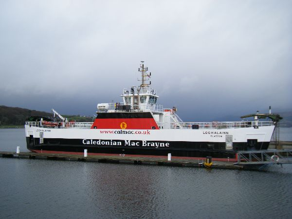 CalMac ferry, MV Loch Alainn at Rothesay pier